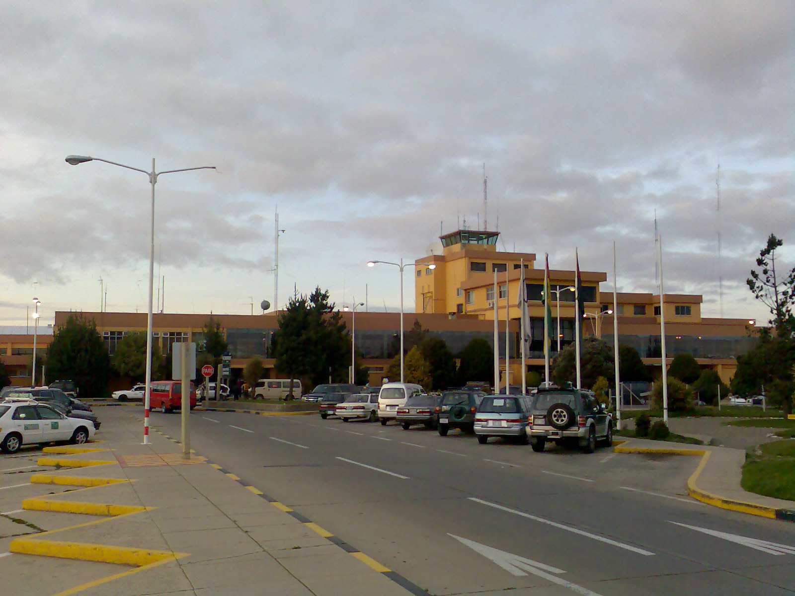 El Alto International Airport